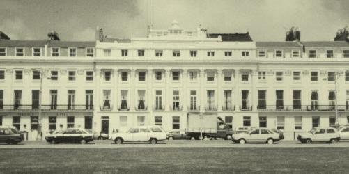 Brunswick Terrace, Hove, Sussex, England, seen from the south. In the centre is number 26, with its former private synagogue on the roof.